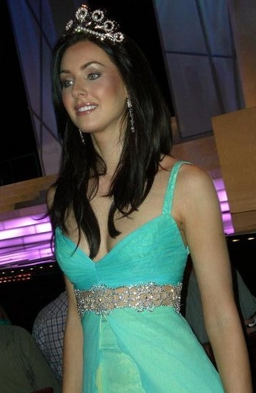 Miss Universe 2005 Natalie Glebova at the rehearsal of Miss Universe 2006 pageant in Los Angeles.